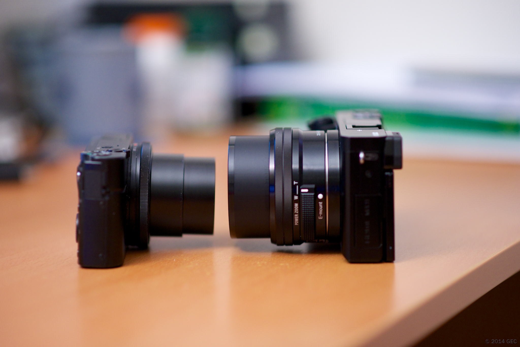 RX100 meet a6000. The Sony a6000 has superior ISO and autofocus. It is not much larger than the RX but the battery life is quite poor and the shutter is loud. The kit lens is only good for daylight. I would recommend to wait for the RX100 III - a much faster lens (f1.8-2.8), EVF, articulating screen, built-in ND filters, and upgraded BionzX processor. All are excellent for travel and street photography. The RX100's are easily carried every day everywhere (retractable lens complete with automatic lens cover built in). At any rate, these small cameras still don't match the image quality of the Nikon D600 with a quality prime lens.